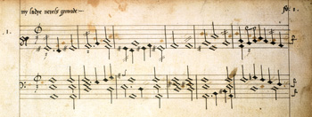 Detail from My Ladye Nevells Booke, a manuscript of music by William Byrd, written by scribe John Baldwin, completed 11 September 1591